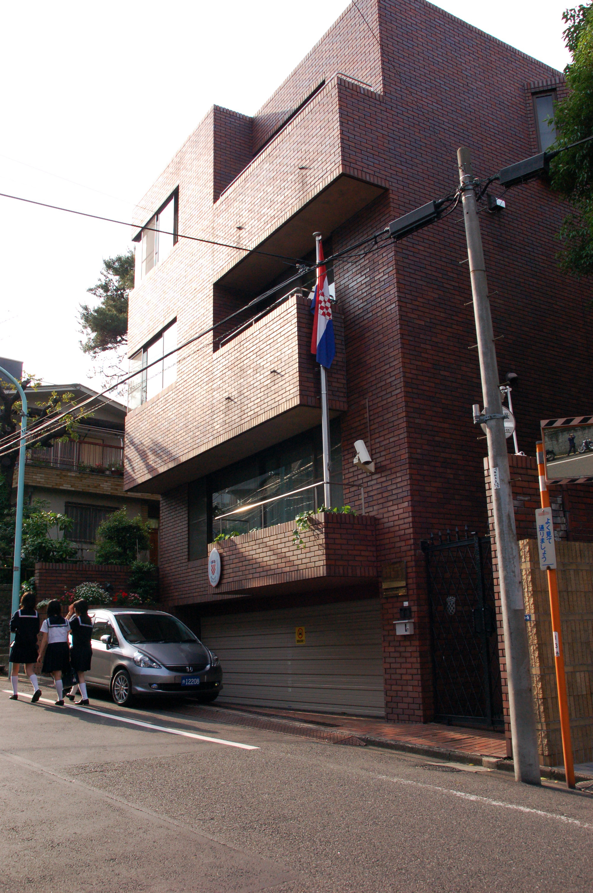 Embassy of Croatia in Tokyo